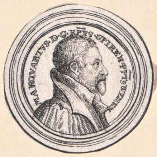 Marquard von Hattstein (1529-1581), Bischof von Speyer